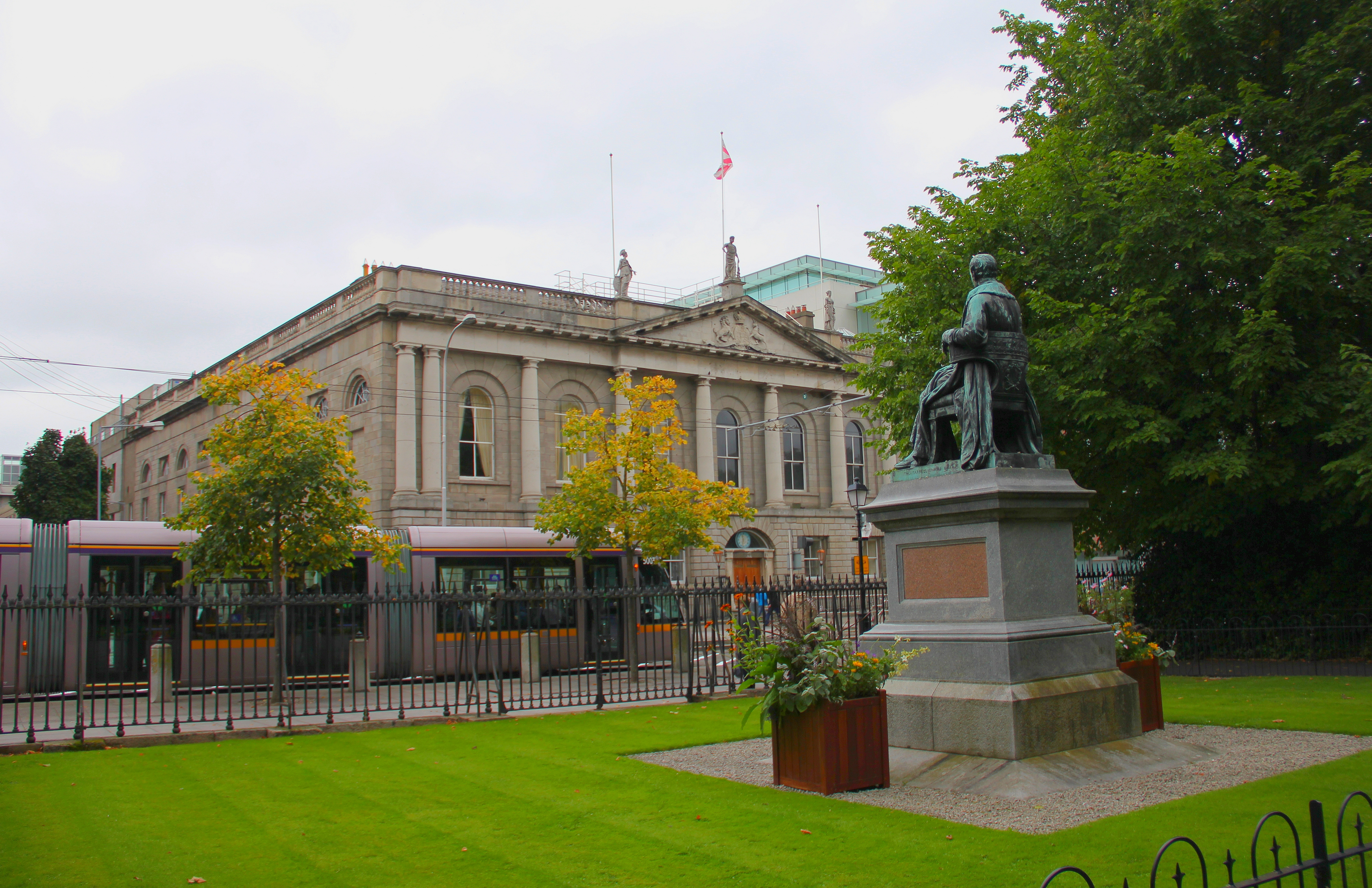 Statue of Lord Ardilaun (Sir Arthur E. Guinness) in St. Stephen's Green in Dublin, Ireland. It is facing the Royal College of Surgeons.